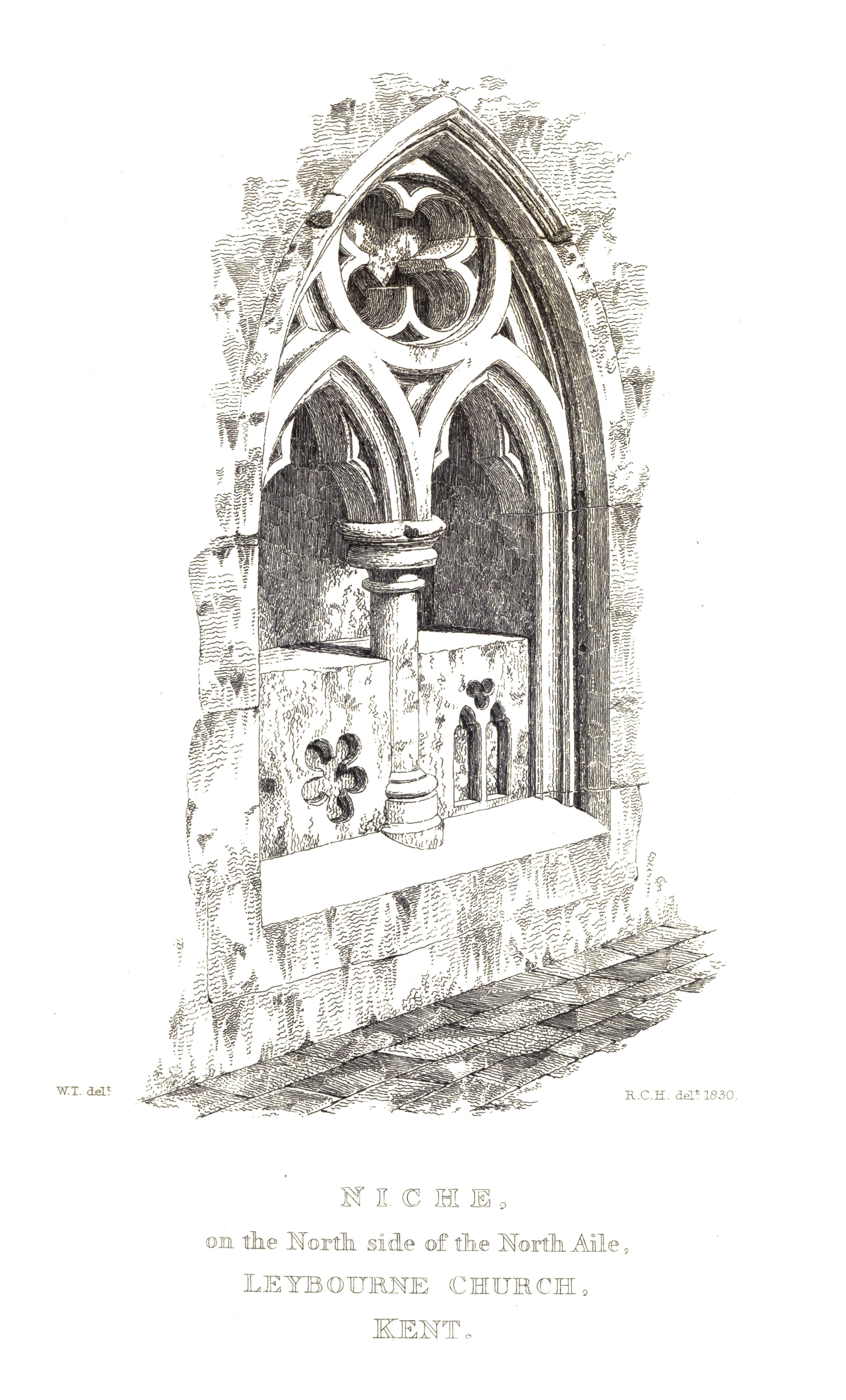 Notes on the Churches in the Counties of Kent, Sussex, and Surrey, mentioned in Domesday Book and those of more recent days including comparative lists of the churches and some account of the Sepulchral Memorials and other Antiquities.